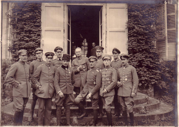 Group foto of Jasta 4 in front of Vaux Castel. showing front row left to right : Hinten von links nach rechts: Lt. Karl Stehle, Vfw. Hermann Margot, Lt. Krawlewski, Lt. Otto Bernert, Lt. Hans Malchow Vorne von l. nach r.: Lt. Alfred Lenz, Lt. Walter Höhndorf, Oblt. Hans J. Buddecke, Oblt. Rudolf Berthold, Oblt. Ernst Frhr. von Althaus, Lt. Wilhelm Frankl.